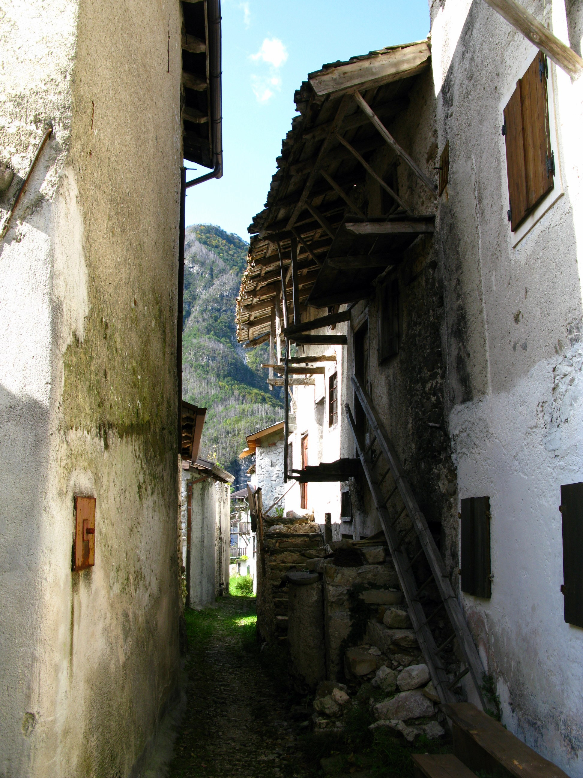 Alley in Moggessa di Là, a nearly abandoned village near Moggio Udinese / Friuli-Venezia Giulia / Italy / EU. The cause of the very narrow construction of the houses is the historically high value of farmland. Residents had as a result of real division is very little reason available.